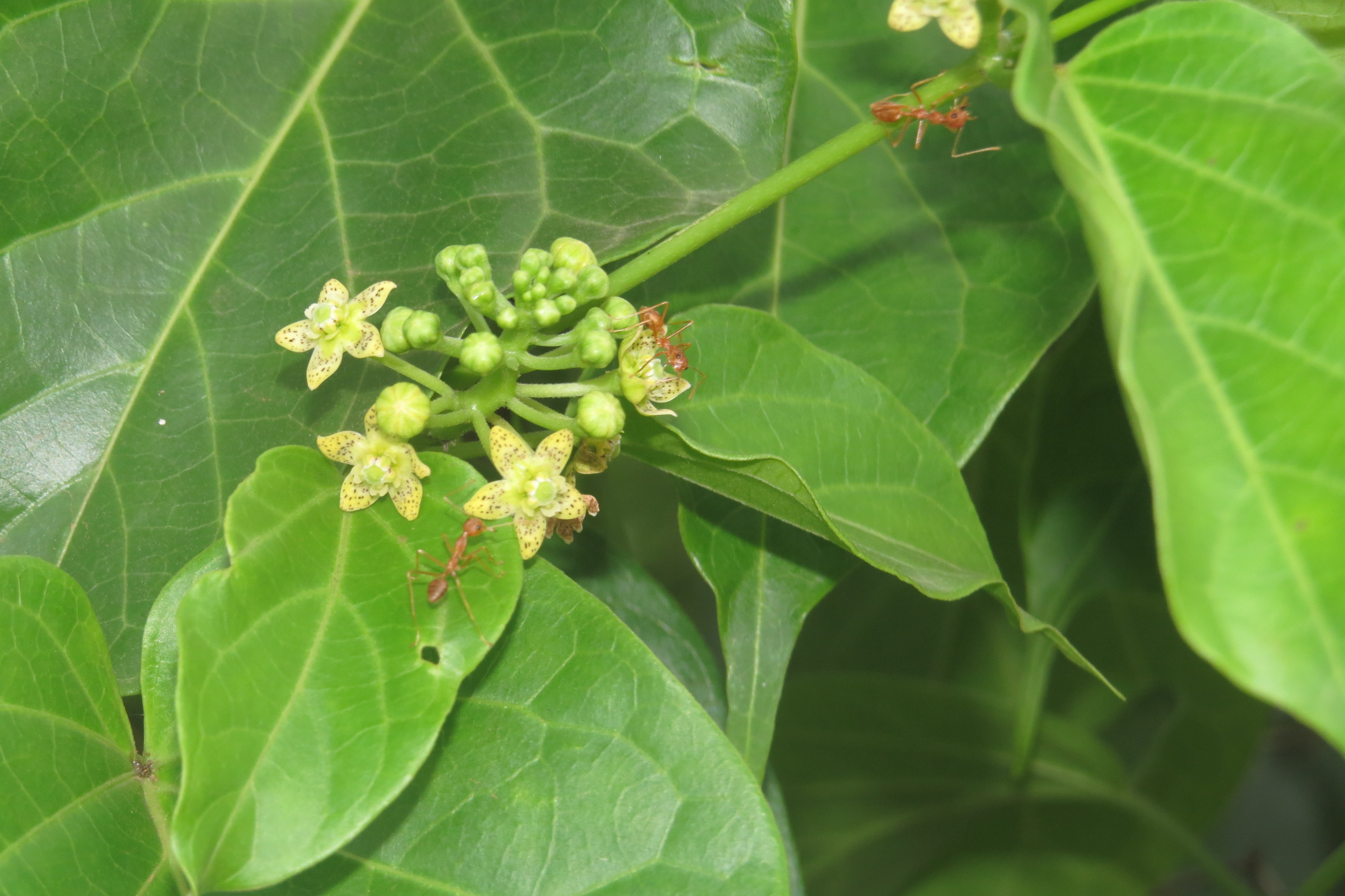 Photos from 2014 by Vinayaraj